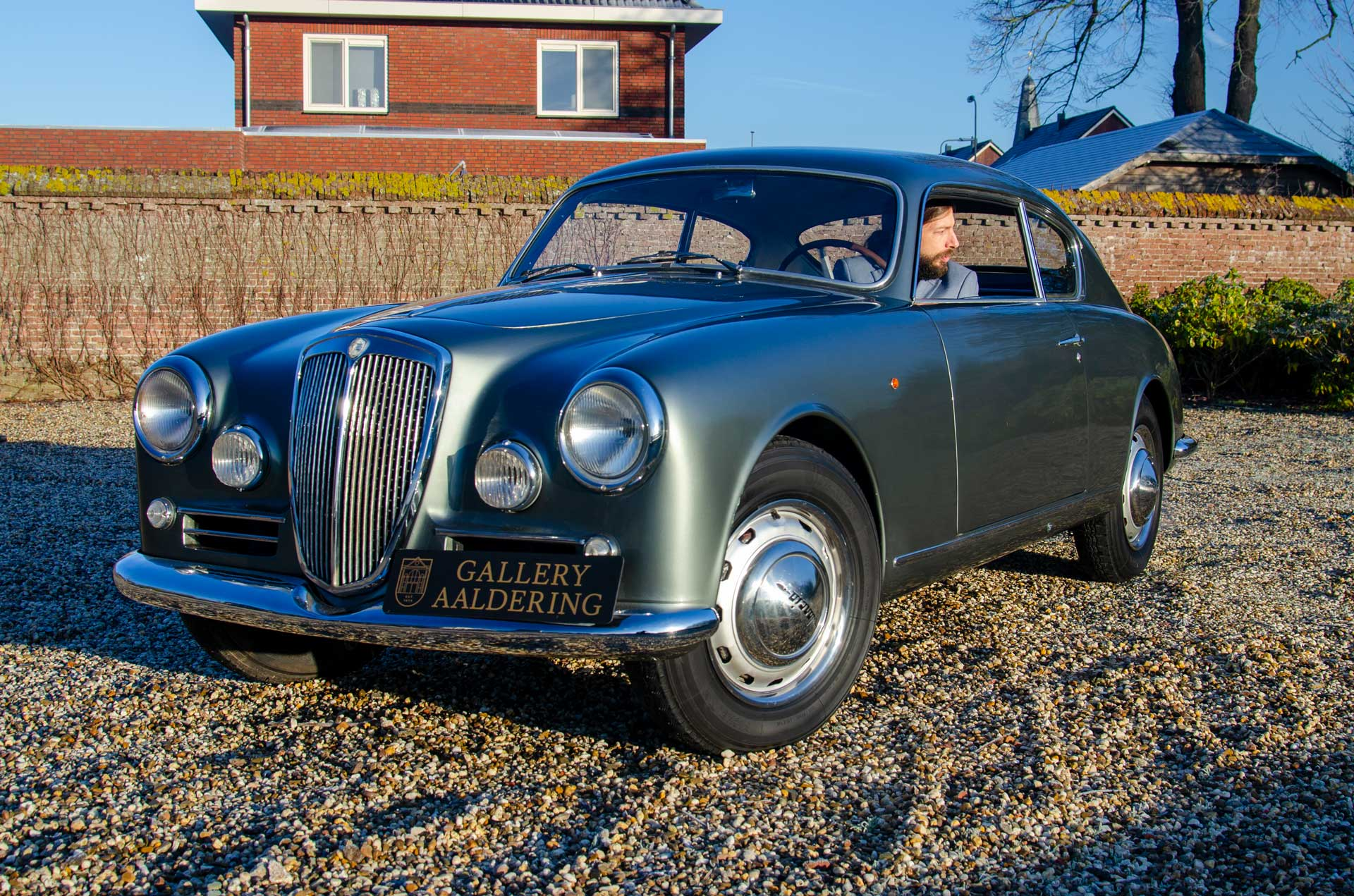 Italian car Lancia Aurelia B20 GT manufactured in 1956, Brummen 2019